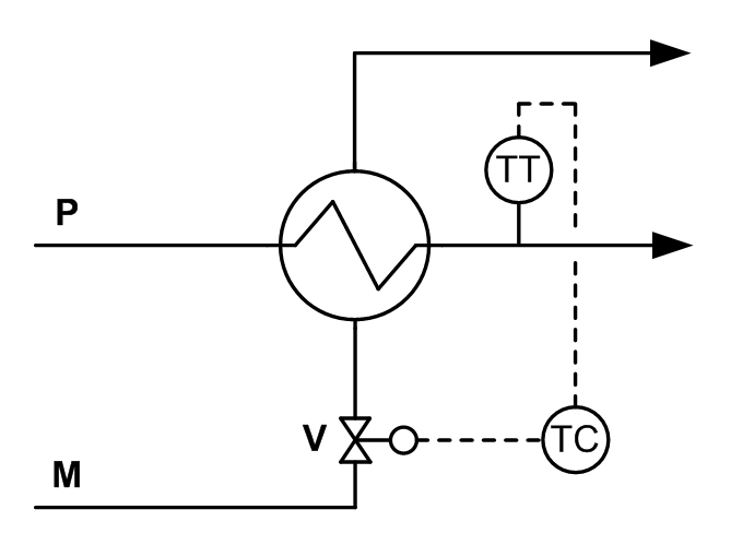 HEX with backward control